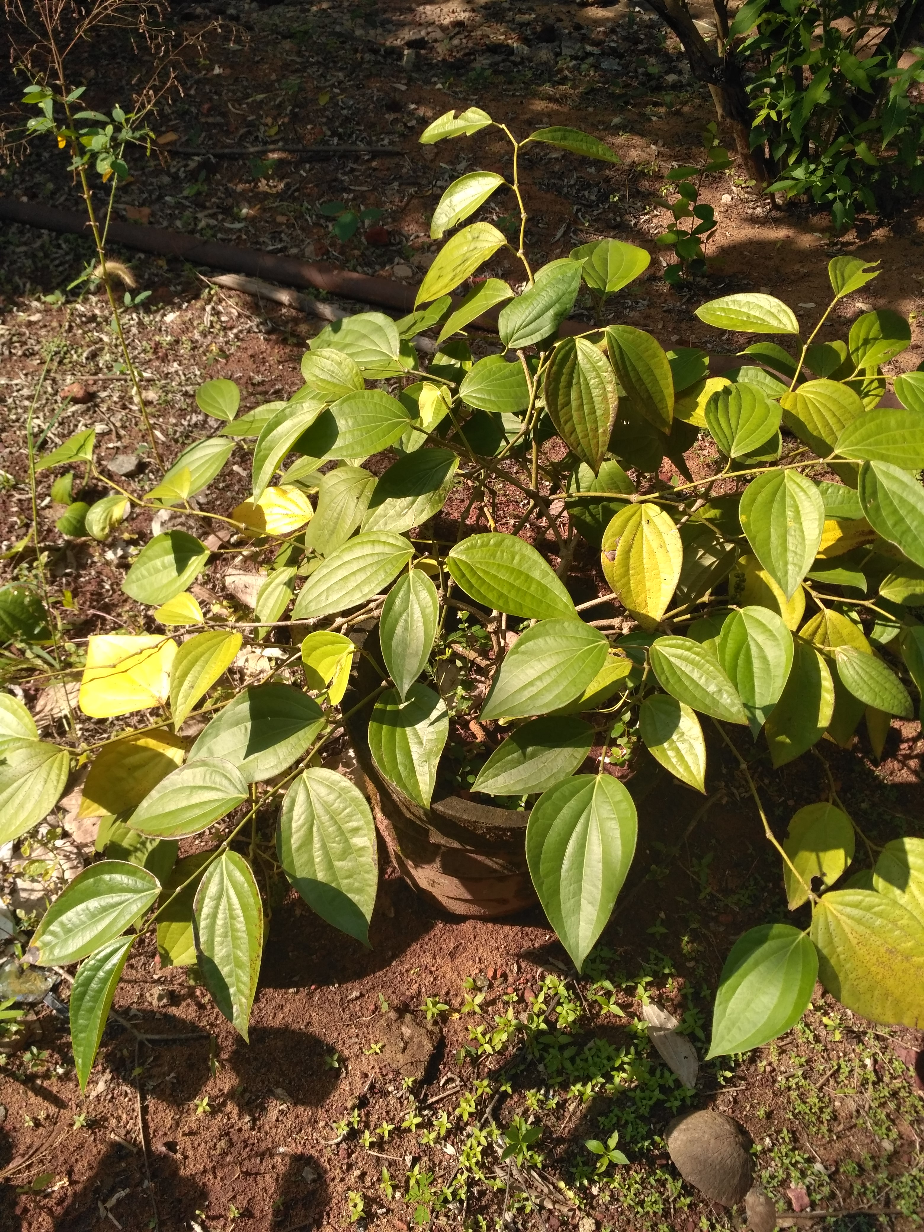 bush pepper plant